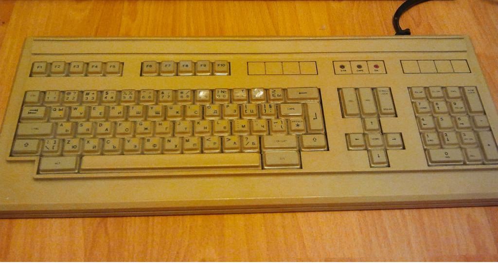 IZOT 1036C keyboard